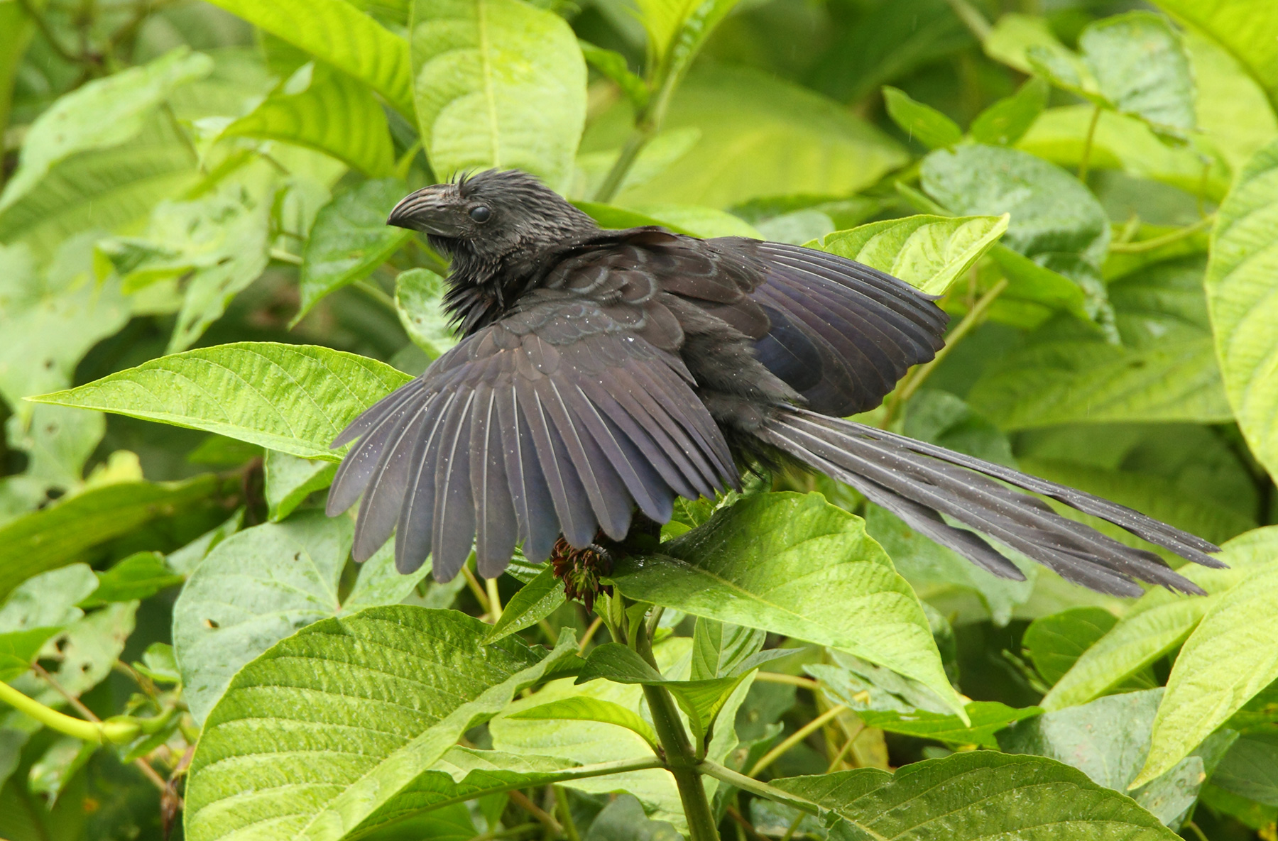 Groove-billed Ani (Crotophaga sulcirostris), Turrialba, Costa Rica